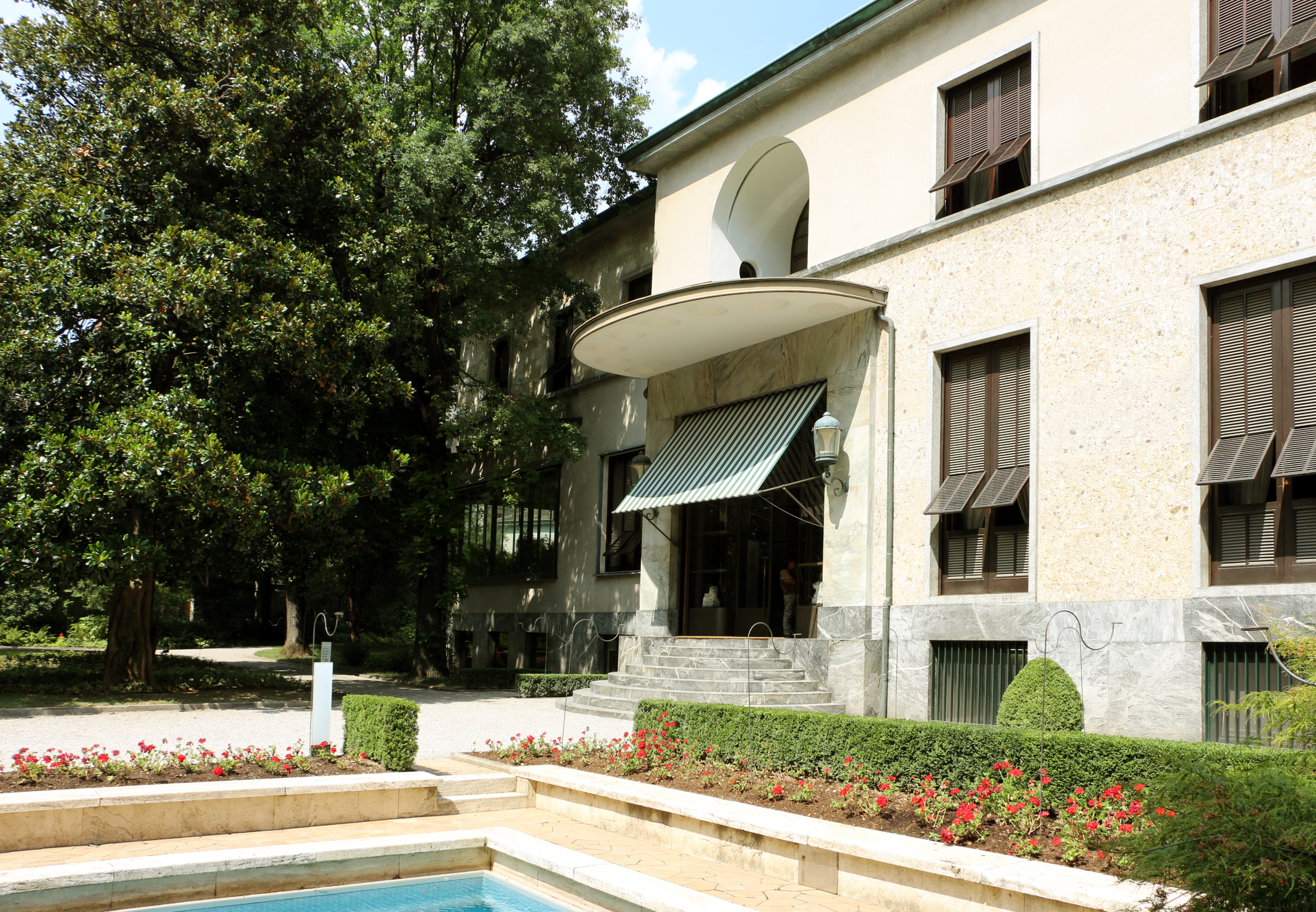 Villa Necchi Campiglio (Milan) - Exterior